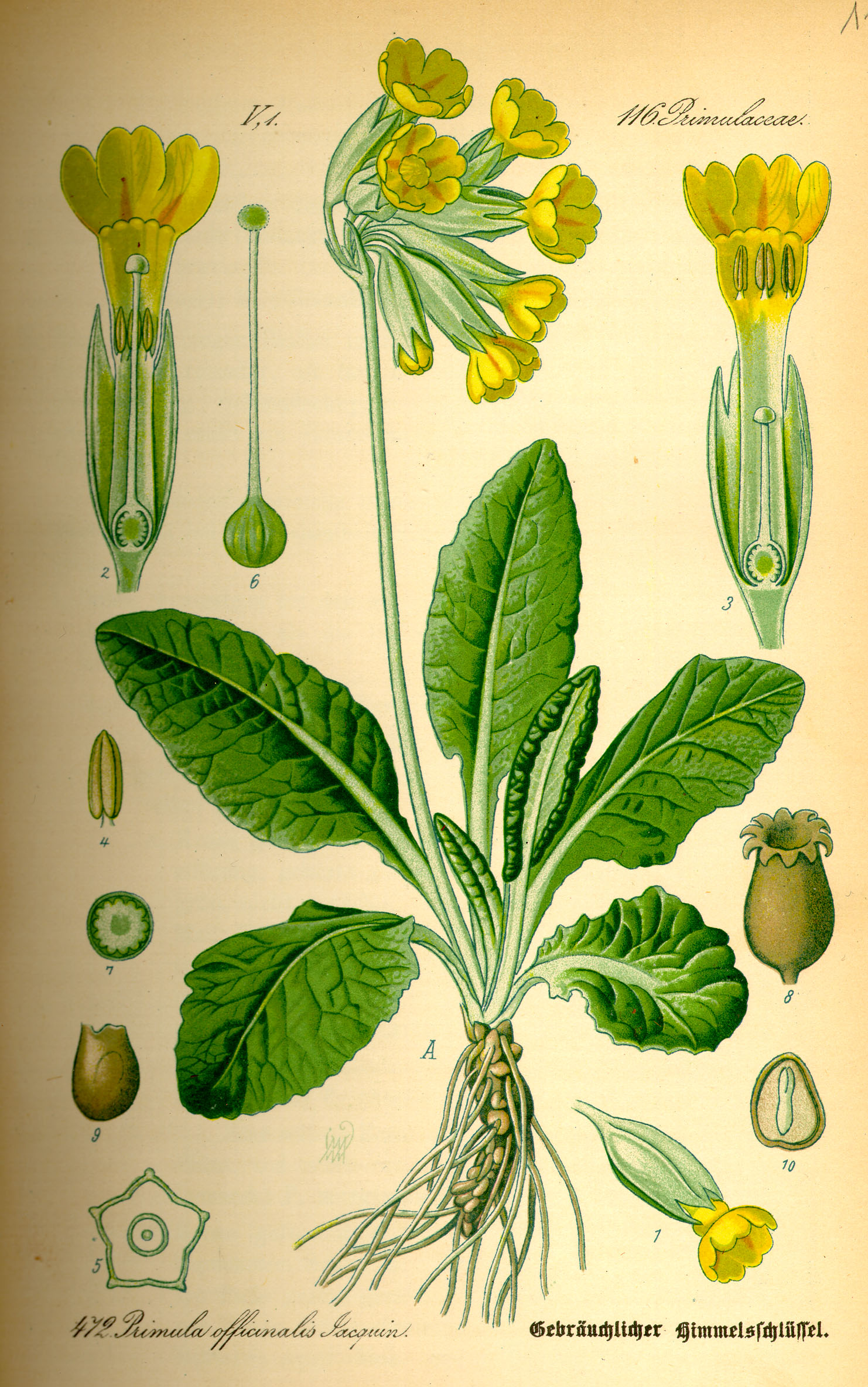 Plate 472 from scan by Kurt Stüber. Copyright (c) 2008 Kurt Stüber. Following is a caption, translated from the footnote on page 23 of the 1903 edition: 1 flower; 2 long-handled, 3 short-styled shape in cross sections; 4 stamen; 5 cross-section through the flower to show the position of the calyx around flower crown and stigma; 6 stigma of long-styled form; 7 cross section through the ovary; 8 capsules; 9 seed; 10 cross section of seed.